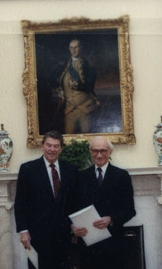 Ronald Reagan and Emmanuel Jacquin de Margerie in Oval Office.